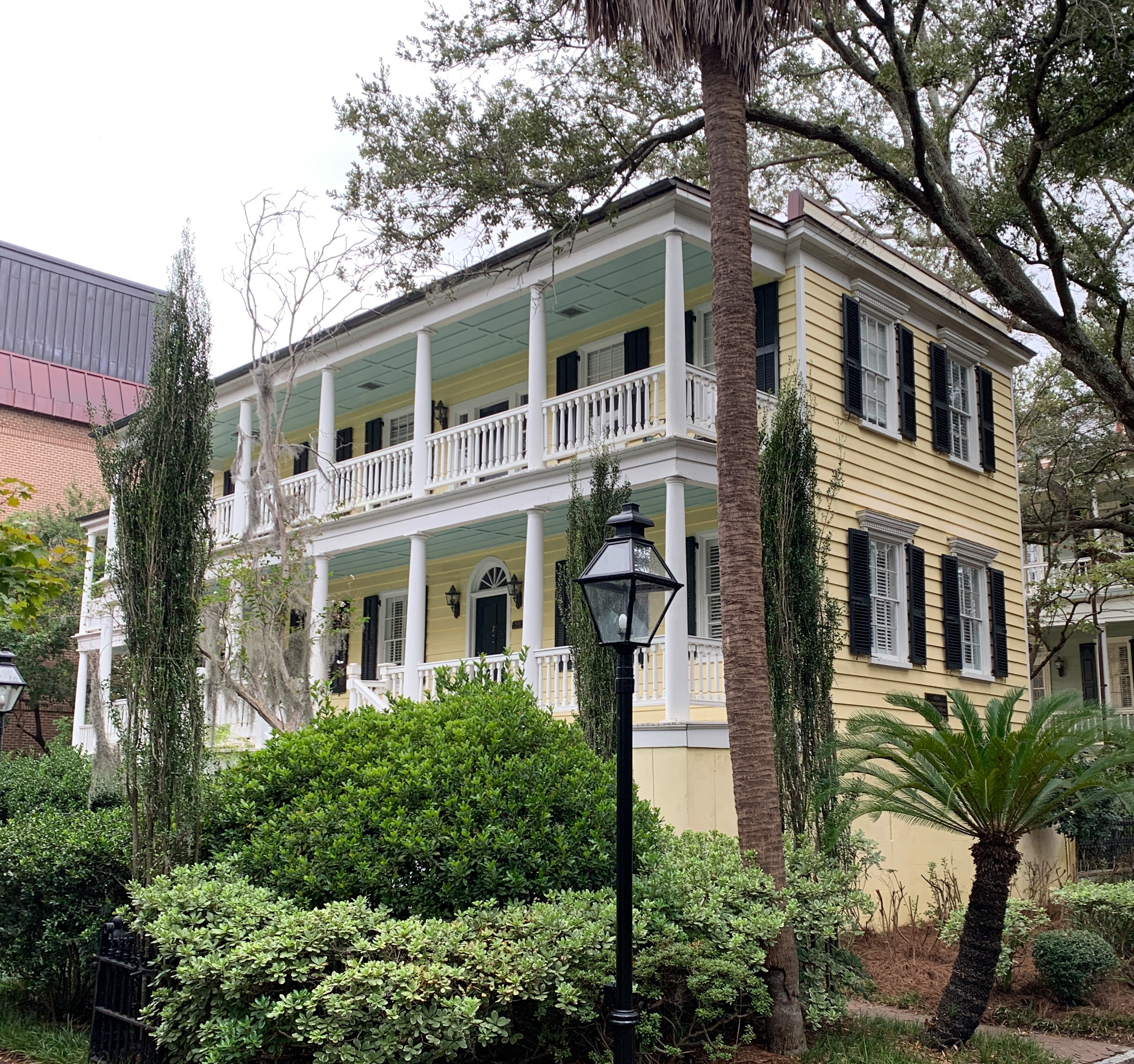 7 College Way, Charleston, South Carolina